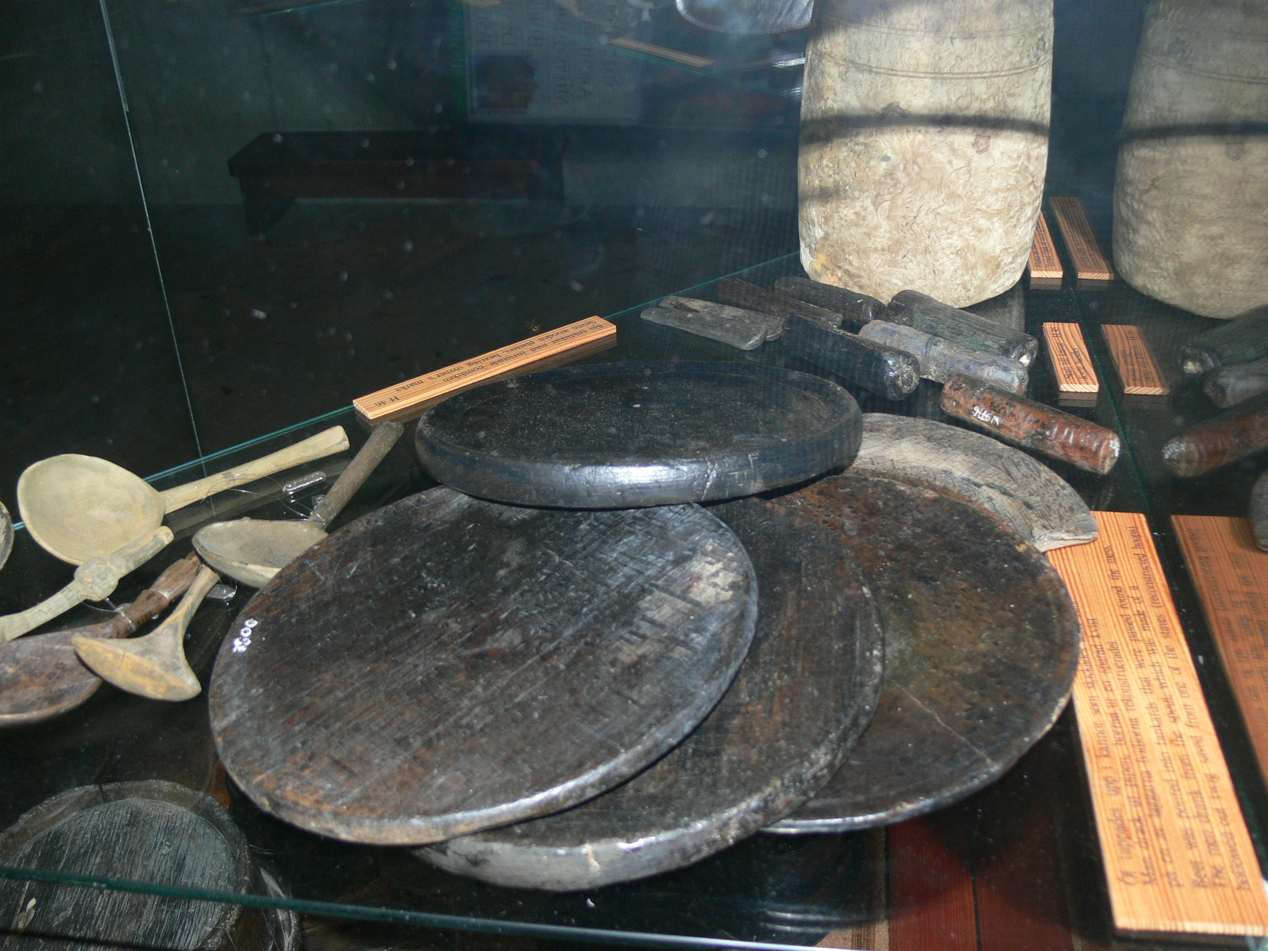 Vasa Museum. Wooden dishes and spoons.